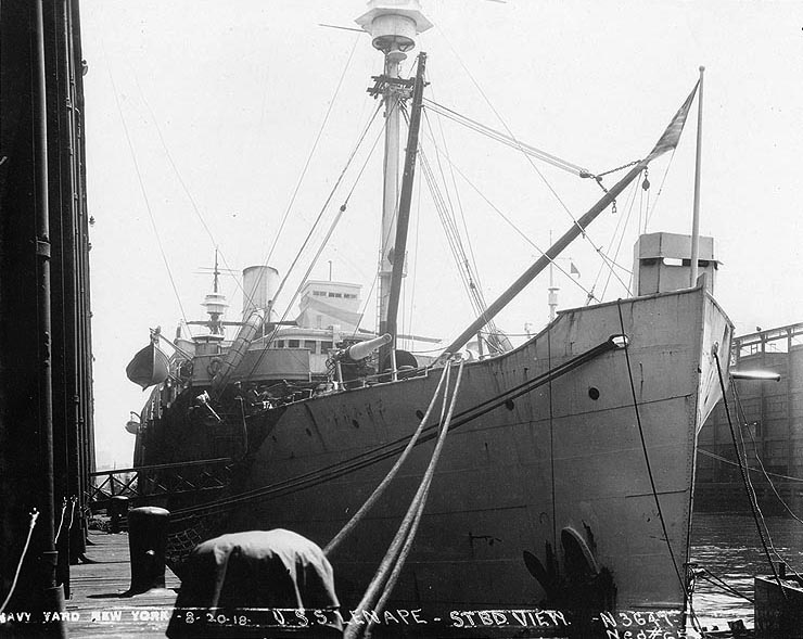 USS Lenape (ID # 2700) At the New York Navy Yard, 20 August 1918. Note the enclosed lookout position at her bow. U.S. Naval Historical Center Photograph.